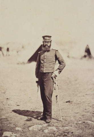 Albumen print of Major William Pollexfen Radcliffe (1822-1897)